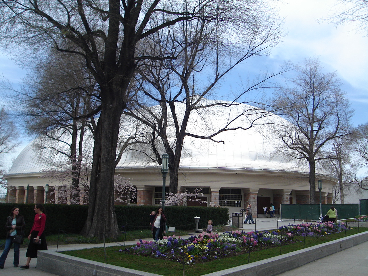 SLC Tabernacle